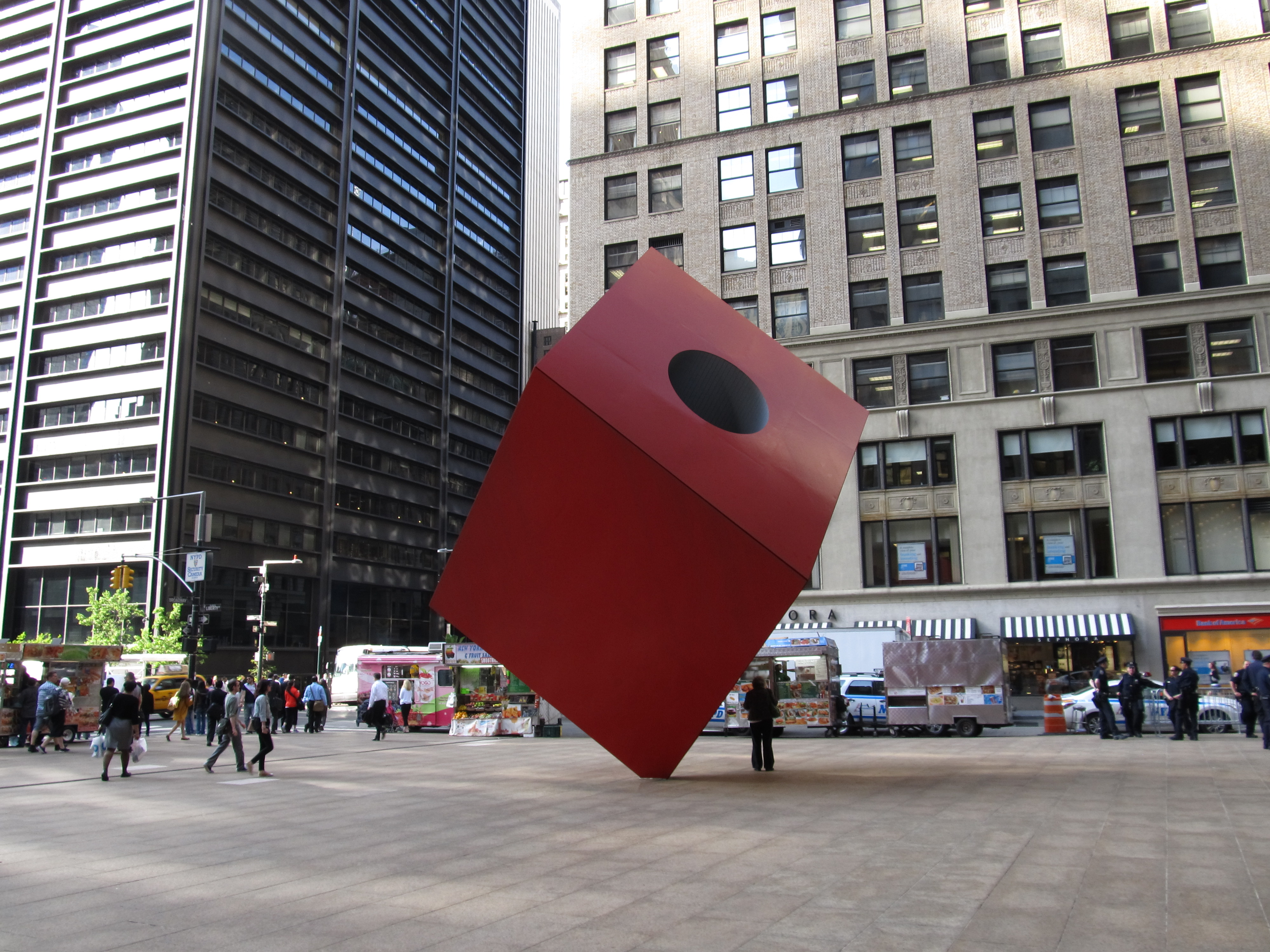 The Marine Midland Building (also HSBC Bank Building) is a 51-story office building located at 140 Broadway in Manhattan's financial district. The building, completed in 1967, is 688 ft (209.7 m) tall and is known for the distinctive sculpture at its entrance, Isamu Noguchi's Cube. Gordon Bunshaft of Skidmore, Owings & Merrill, the man who designed the building, had originally proposed a monolith type sculpture, but it was deemed to be too expensive.